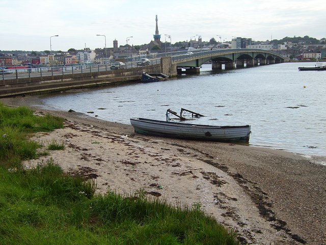 Wexford Bridge. The town beyond.